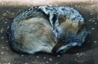 Mexican Wolf at Binder Park Zoo.